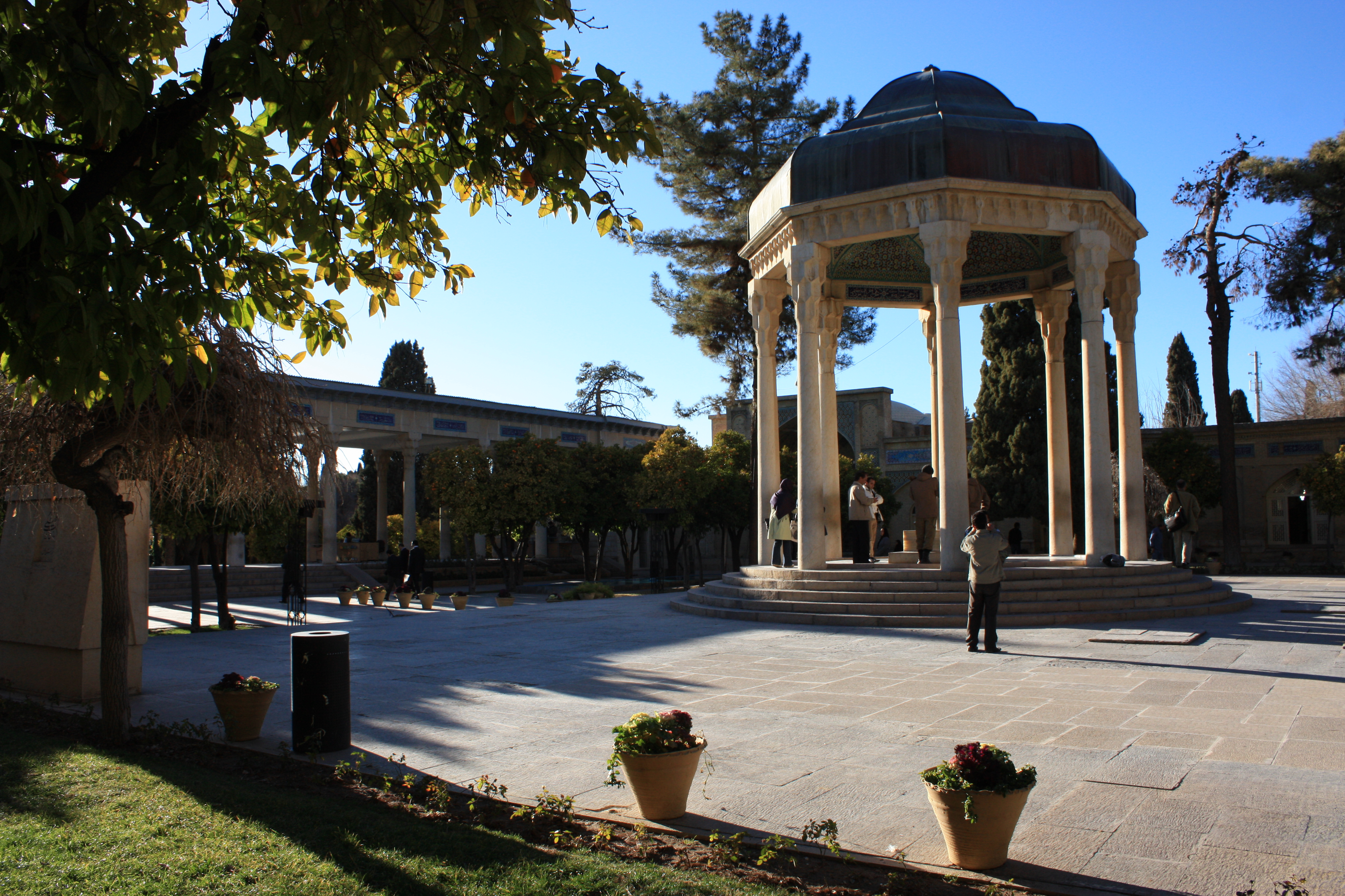 Tomb of Hafez in Shiraz